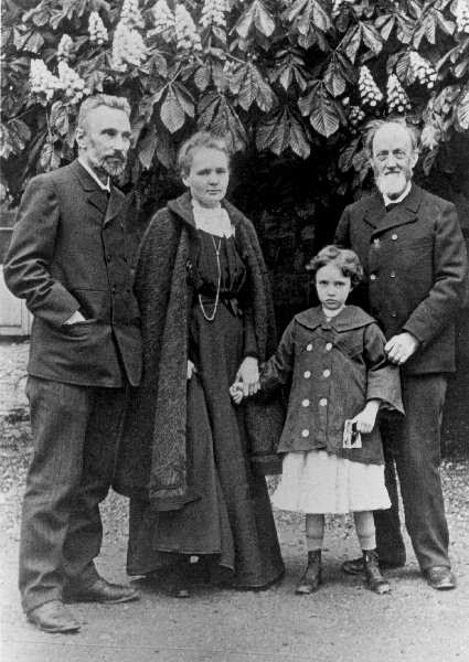 Photograph taken in front of the entrance to the BIPM, c. 1904. From left to right: Pierre Curie (Nobel Prize in Physics 1903); Marie Curie (Nobel Prizes in Physics 1903 and Chemistry 1911); Irène Curie (Nobel Prize in Chemistry 1935); Dr. Curie (Pierre Curie's father). Photograph taken by Ch. E. Guillaume, then Deputy Director of the BIPM (Nobel Prize in Physics 1920).